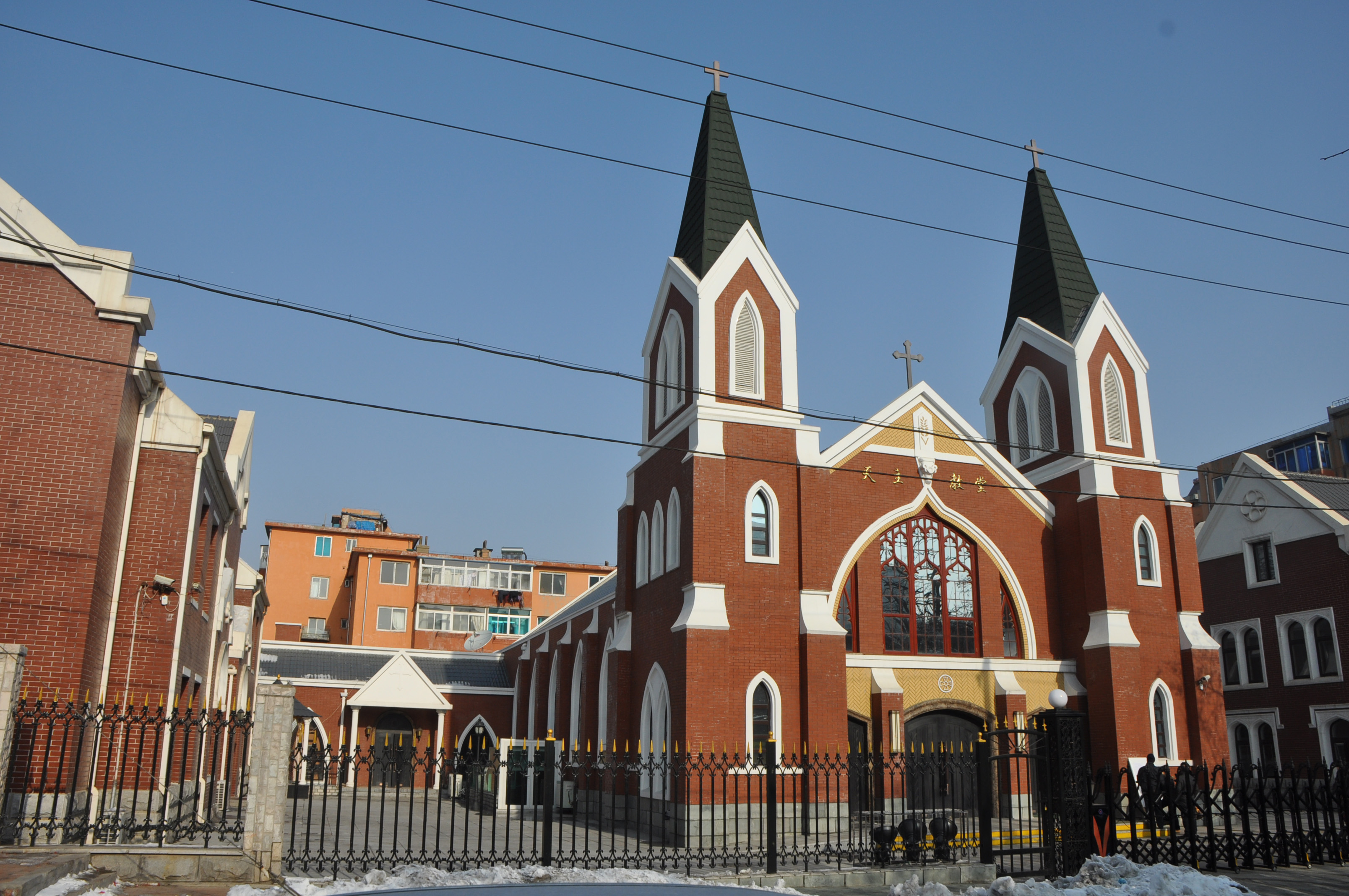 Dalian Catholic Church, China, 2013-Exterior Front